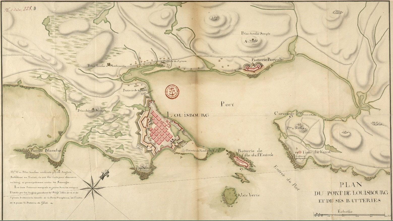 Map of Louisbourg and its artillery batteries in 1751.